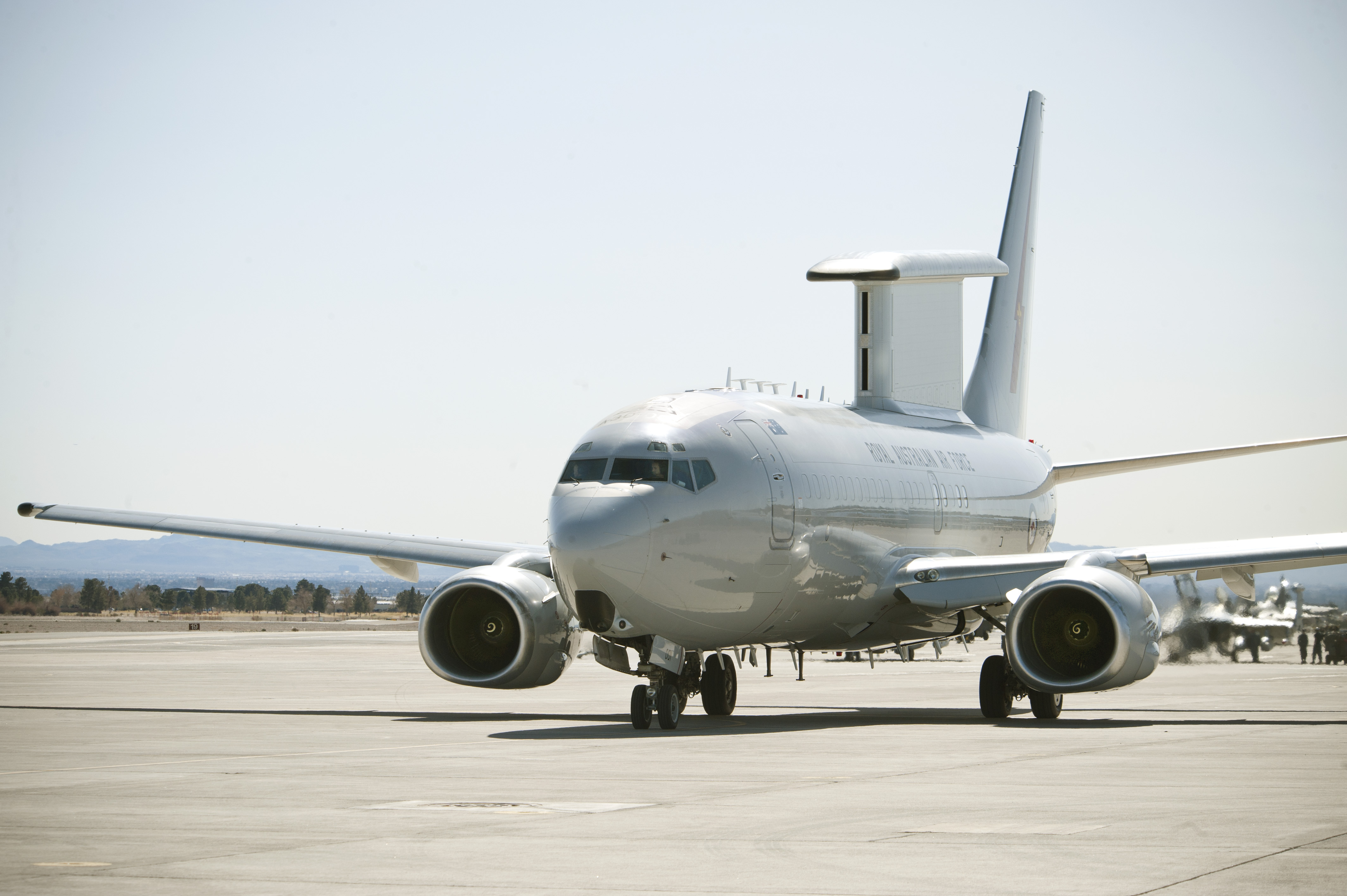 A Royal Australian Air Force E-7A Airborne Early Warning and Control aircraft taxis to the active Nellis Air Force Base, Nev., runway Feb. 27, 2013. The RAAF E-7A pilots, maintainers and support members are participating in Red Flag for the first time.